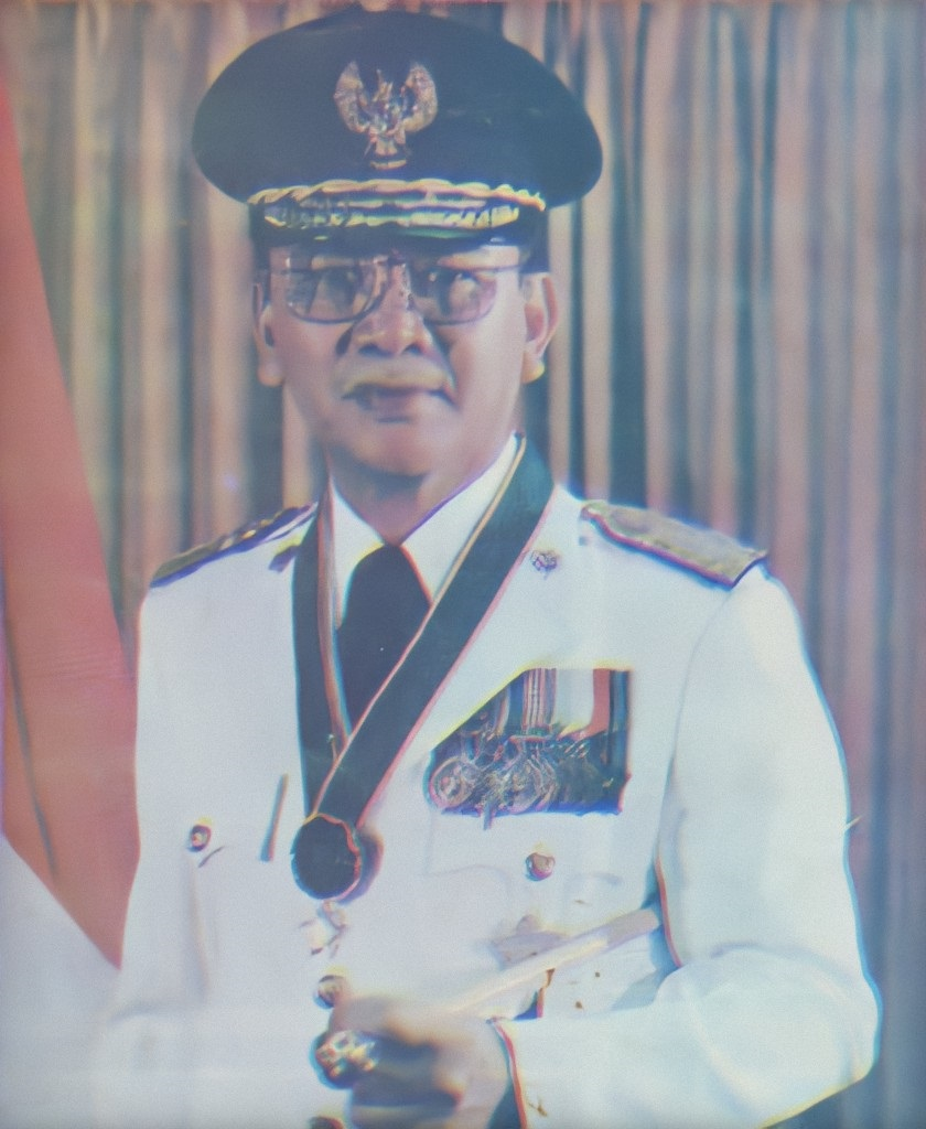 Official portrait of Gustaf Hendrik Mantik, governor of North Sulawesi from 1980 until 1985.